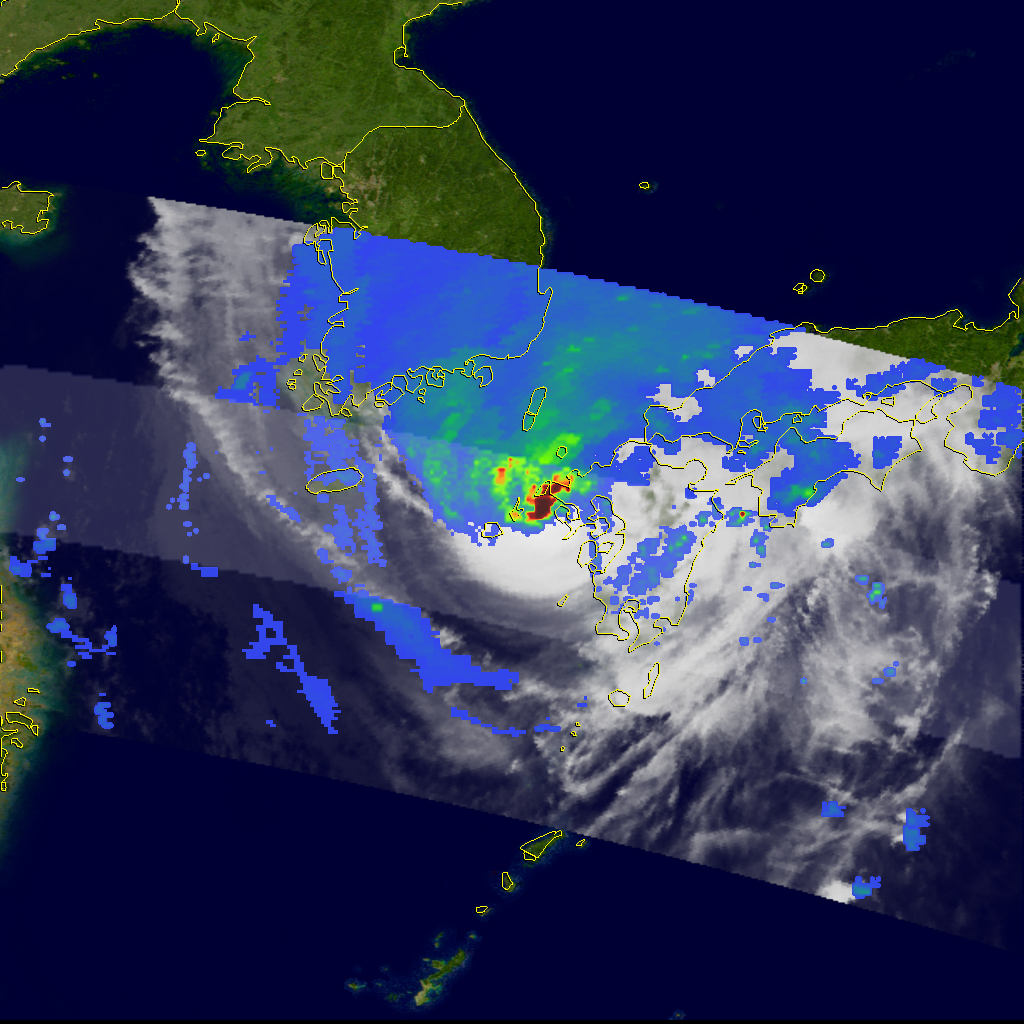 Shanshan (known as Luis in the Philippines) began as a tropical depression (area of low air pressure) on September 10, 2006, in the central Philippine Sea. Within 36 hours, the depression organized into a Category 1 typhoon and was given the name “Shanshan.” According to the Joint Typhoon Warning Center, Shanshan then tracked to the north, running roughly parallel to the China coast. By September 15, the storm had built to Category 4 strength, with winds of 220 kilometers per hour (138 miles per hour). Shanshan then moved off to the northeast towards southern Japan, weakening as it did so. Typhoon Shanshan made landfall on western Kyushu as a Category 1 storm. Heavy rains from the typhoon triggered mudslides, and the severe weather was responsible for 9 deaths and hundreds of injuries, said news reports. This image, taken by the Tropical Rainfall Measuring Mission (TRMM) satellite, shows Typhoon Shanshan at 5:31 p.m. (08:31 UTC) on September 17, 2006, just as the storm was making landfall on Kyushu. Specifically, the image shows how much rain the storm was producing (measured in millimeters per hour) as it made landfall. An area of intense rain (darker red) is located near the center, over the western tip of Kyushu. A broad area of light (blue) to moderate (green) rain extends out ahead of the storm. The TRMM satellite was placed into service in November 1997. From its low-earth orbit, TRMM provides valuable images and information on storm systems around the tropics using a combination of passive microwave and active radar sensors, including the first precipitation radar in space. TRMM is a joint mission between NASA and the Japanese space agency, JAXA.